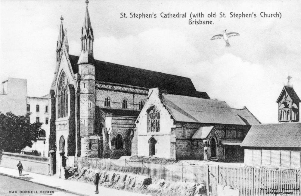 St. Stephen's Cathedral and 'old' St. Stephen's Church, from Elizabeth Street, Brisbane. Frontal view of St. Stephen's Cathedral and 'old' St. Stephen's Church, from Elizabeth Street, Brisbane, ca. 1910. Some of the school? buildings, including bell-tower, are still in evidence attached to the old church. A picket-fence aligns some of the pavement and two pedestrians are in the street. Caption: St. Stephen's Cathedral (with old St. Stephen's Church) Brisbane.